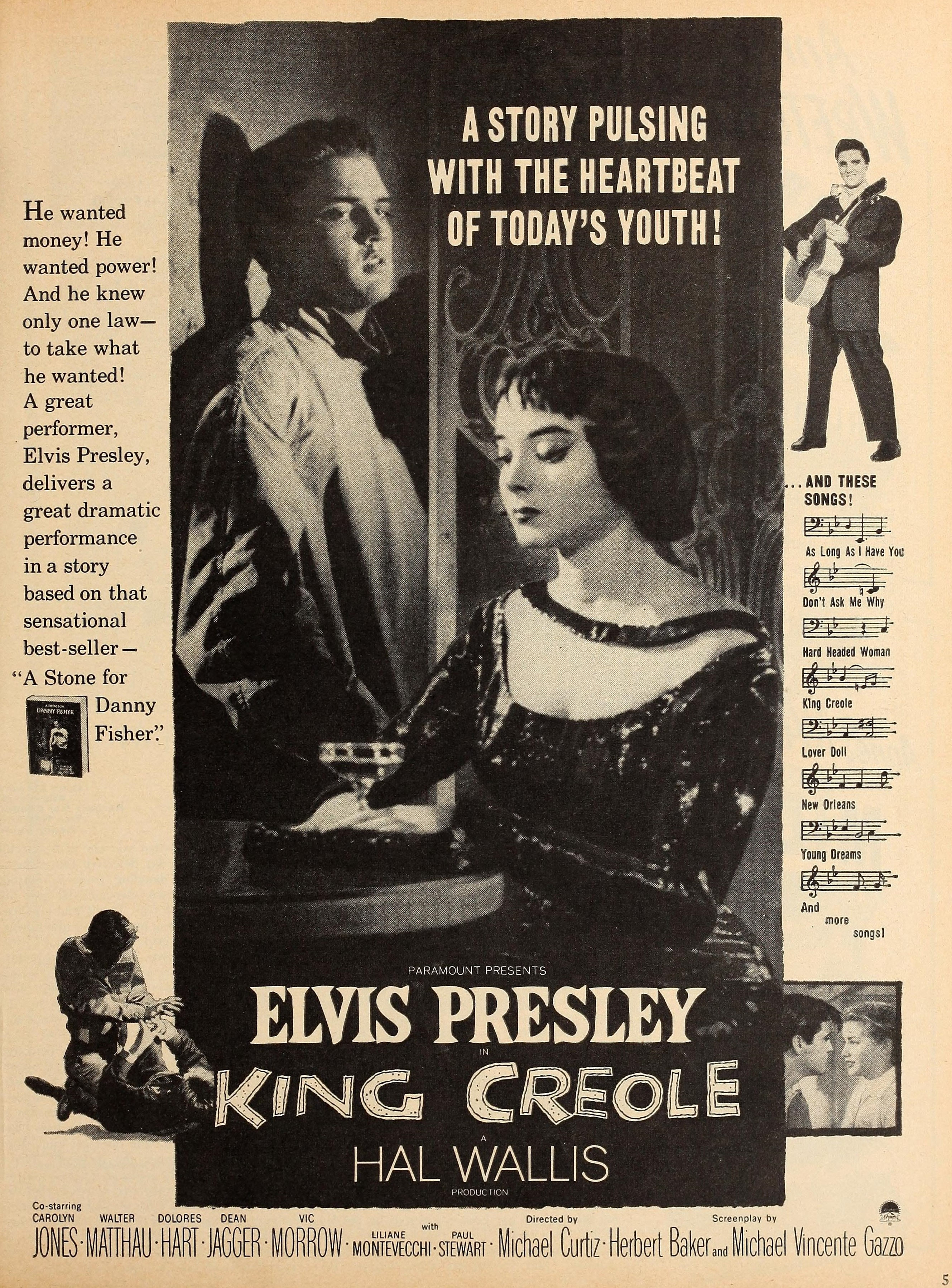 Modern Screen, August 1958